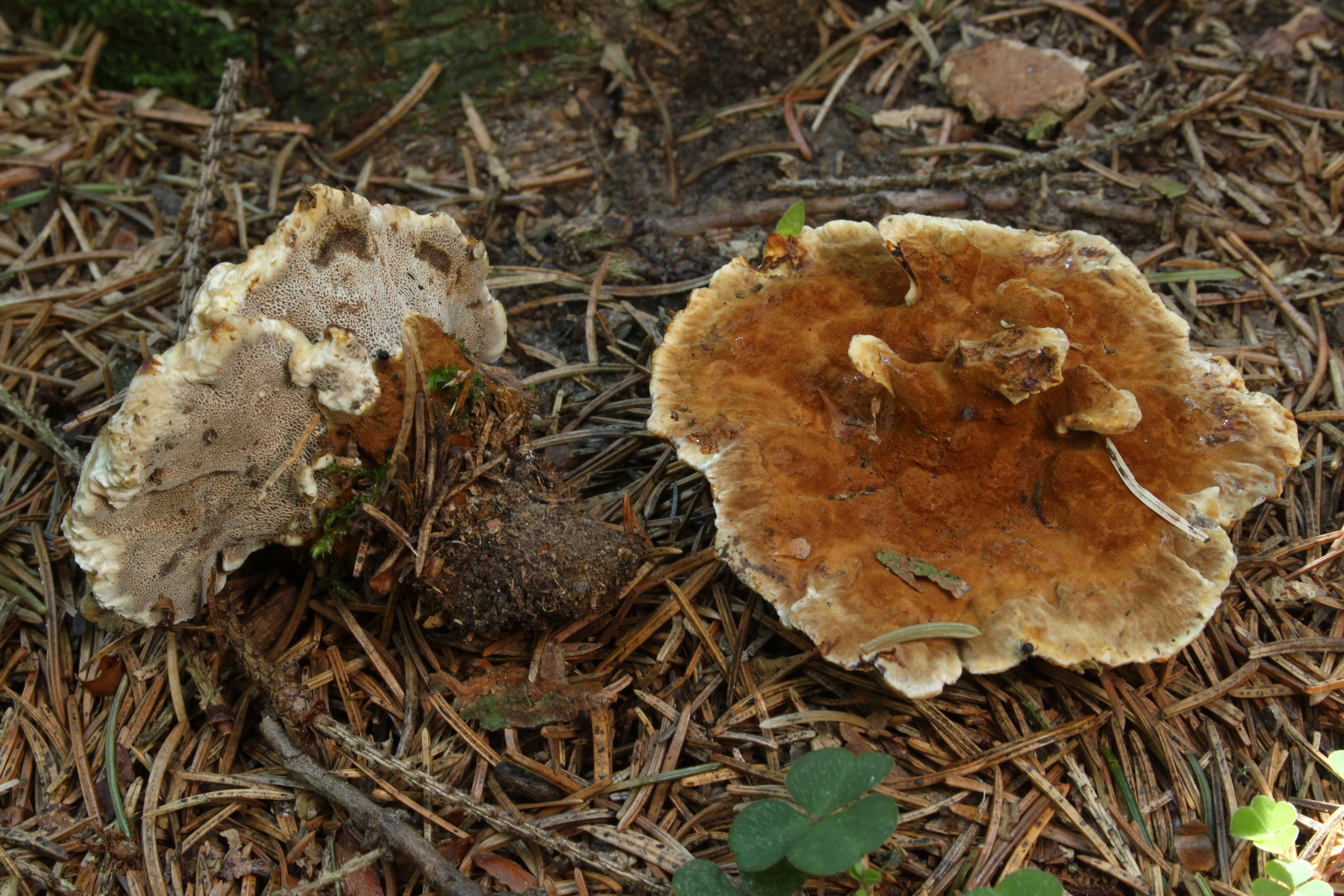 Onnia tomentosa, Family: Hymenochaetaceae, Location: Germany, Ulm, Eggingen